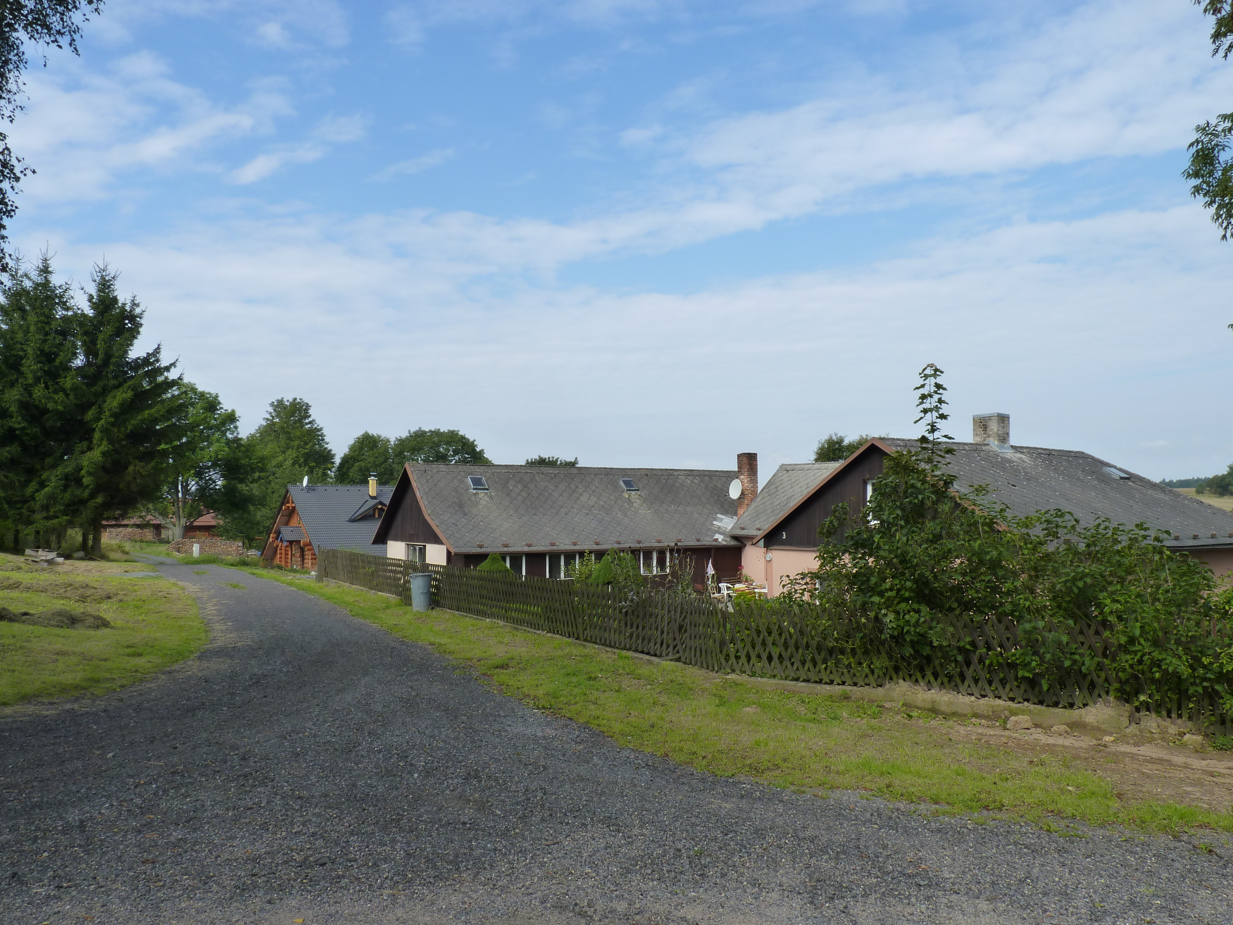 Mendryka (Janov), Svitavy District, Pardubice Region